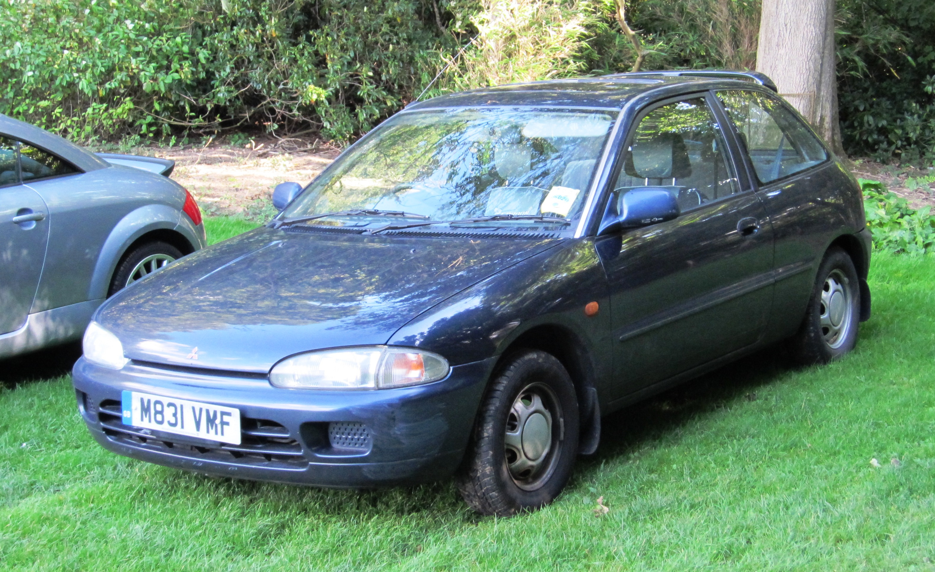 Mitsubishi Colt 1995